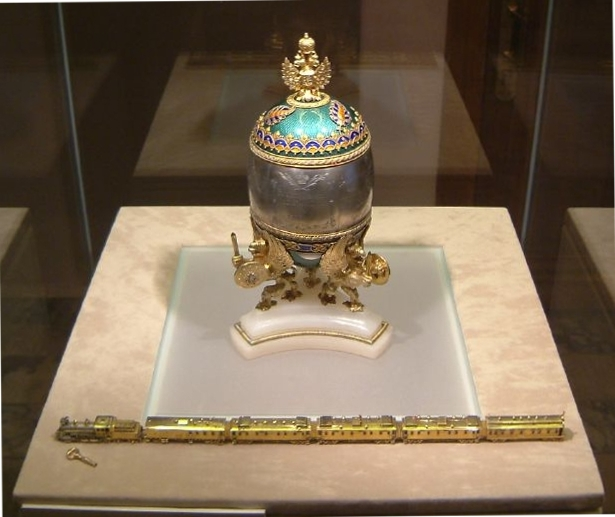 Faberge Egg.. Worth a small fortune (Or maybe even a large one !)